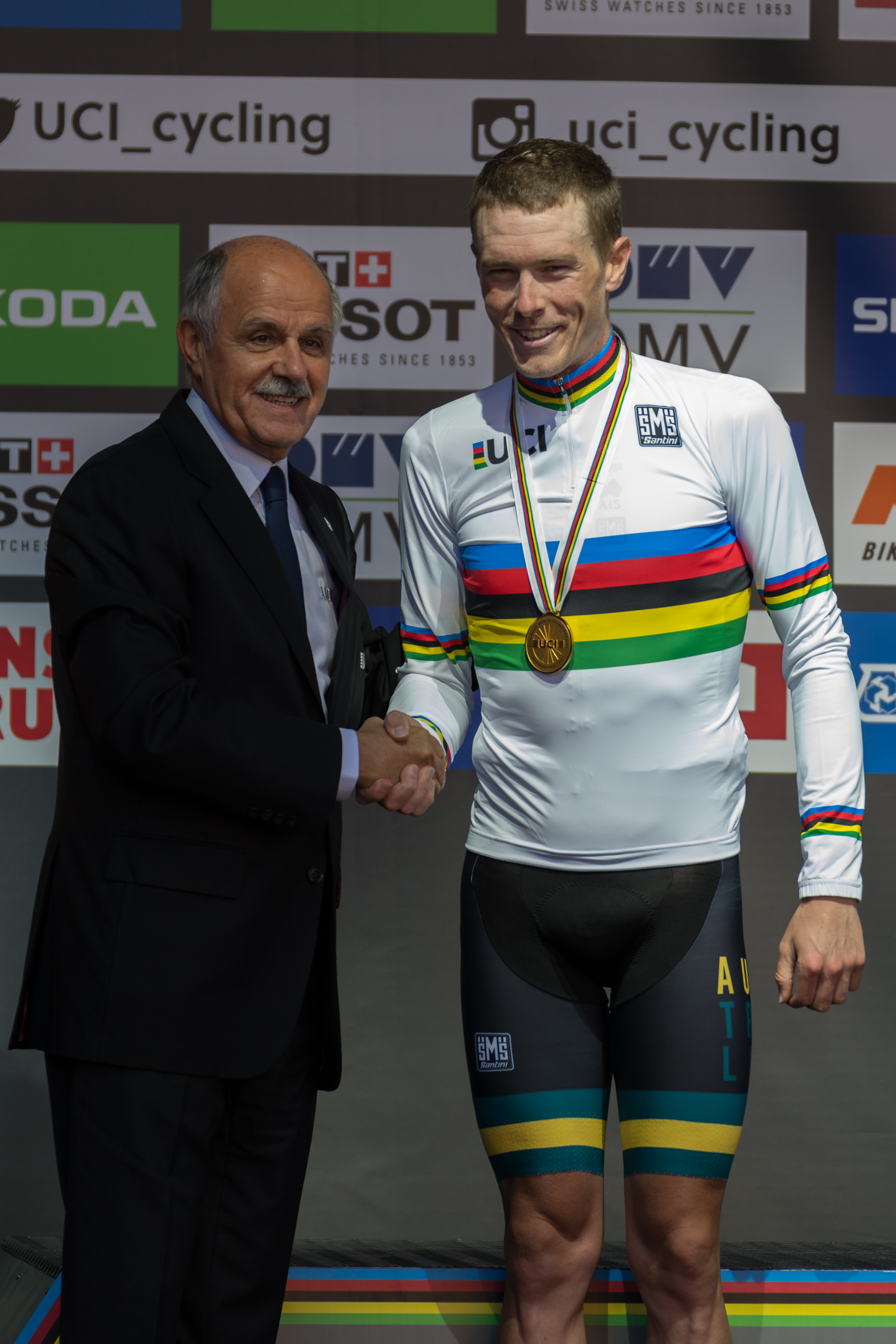 2018 UCI Road World Championships Innsbruck/Tirol Men's Individual Time Trial. Picture shows: Renato di Rocco (Vice President of the UCI) gratulates Rohan Dennis of Australia